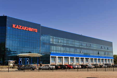 Jezkazgan